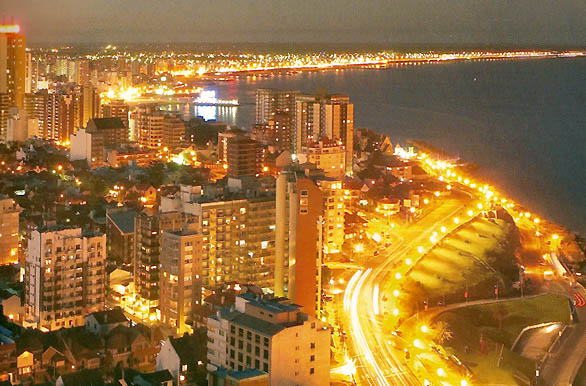 Panoramic view of Mar del Plata at night.